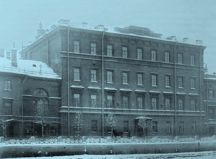 States Kontrol 1914 Saint-Petersbourg, nab.Moiki, 76